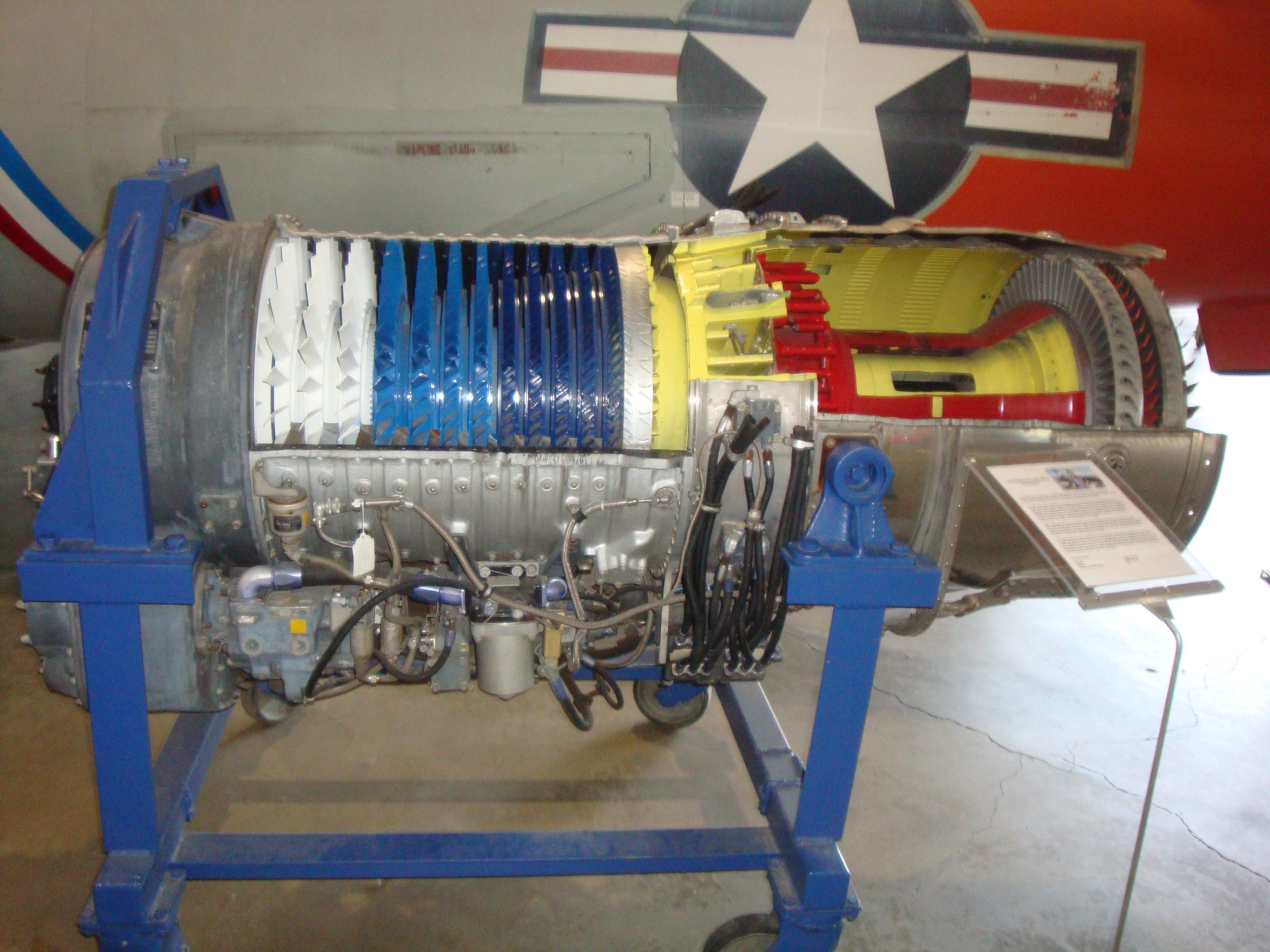 Aircraft engine at Wings Over the Rockies Air and Space Museum